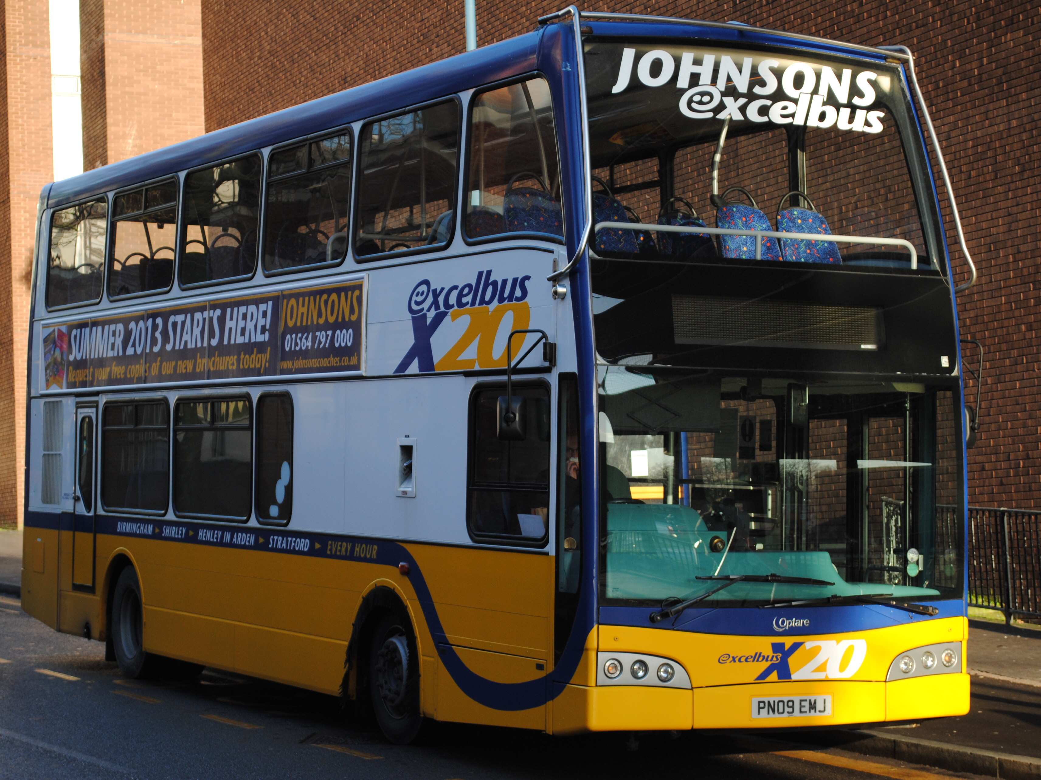 A Johnson's Excelbus Scania N230UD with an Optare Olympus body, registration mark PN09 DMJ.